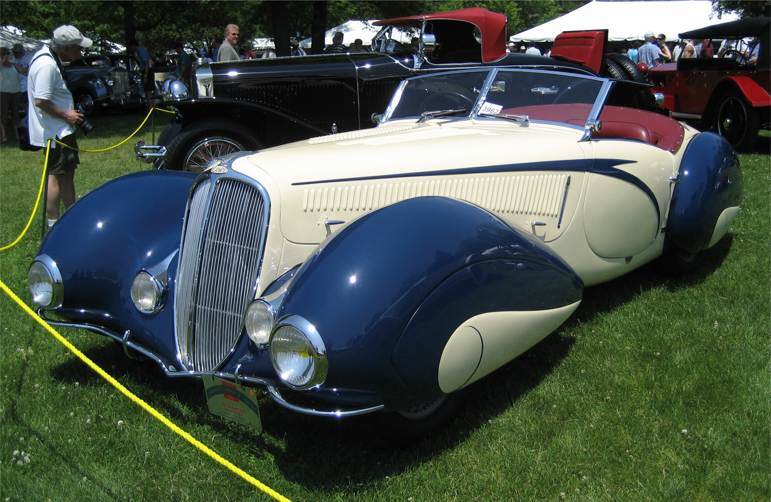 1937 Delahaye 135 M roadster photographed at the 2008 Greenwich Concours d'Elegance in Greenwich, Connecticut